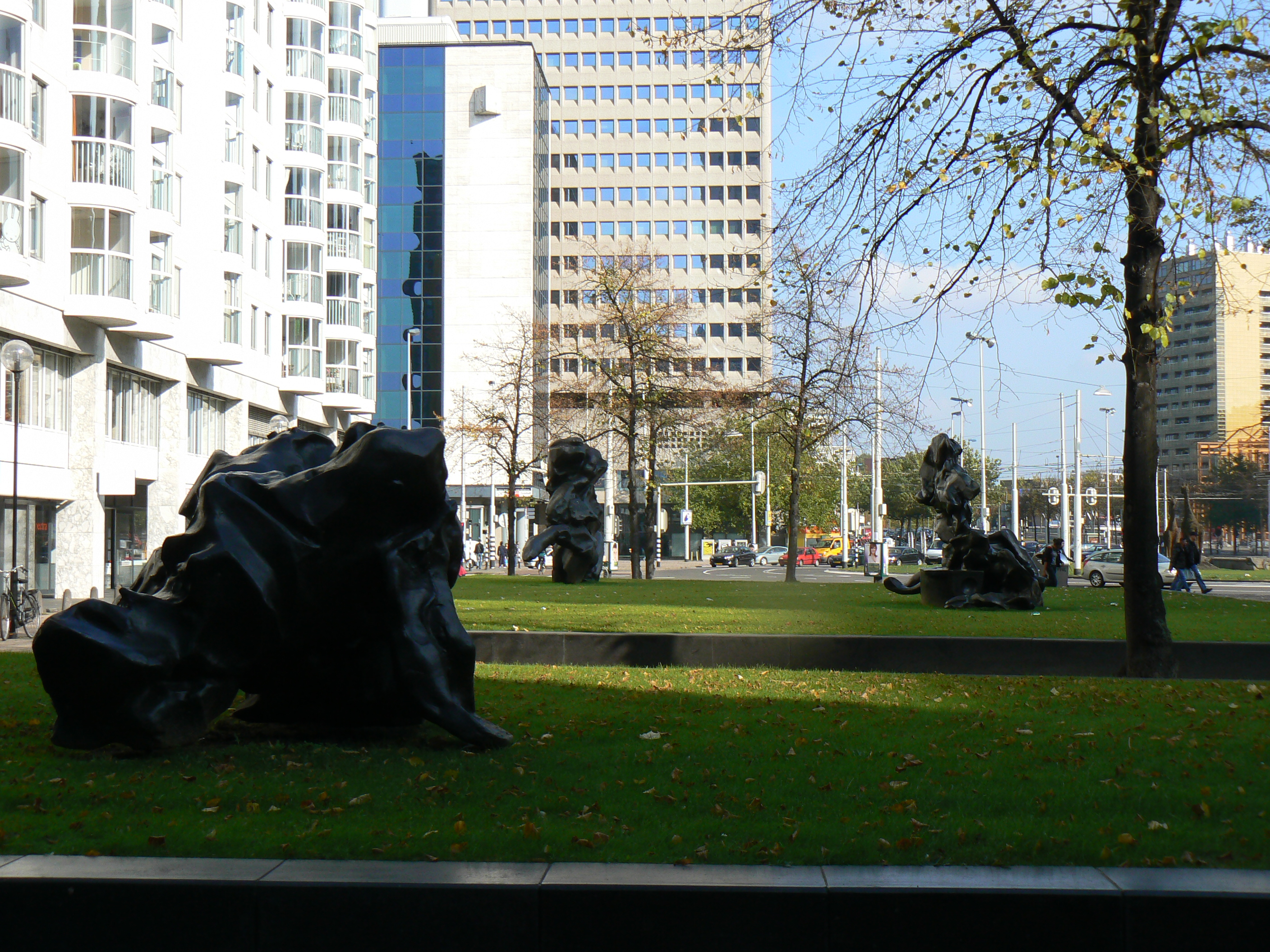 3 sculptures by Willem de Kooning in Rotterdam/The Netherlands